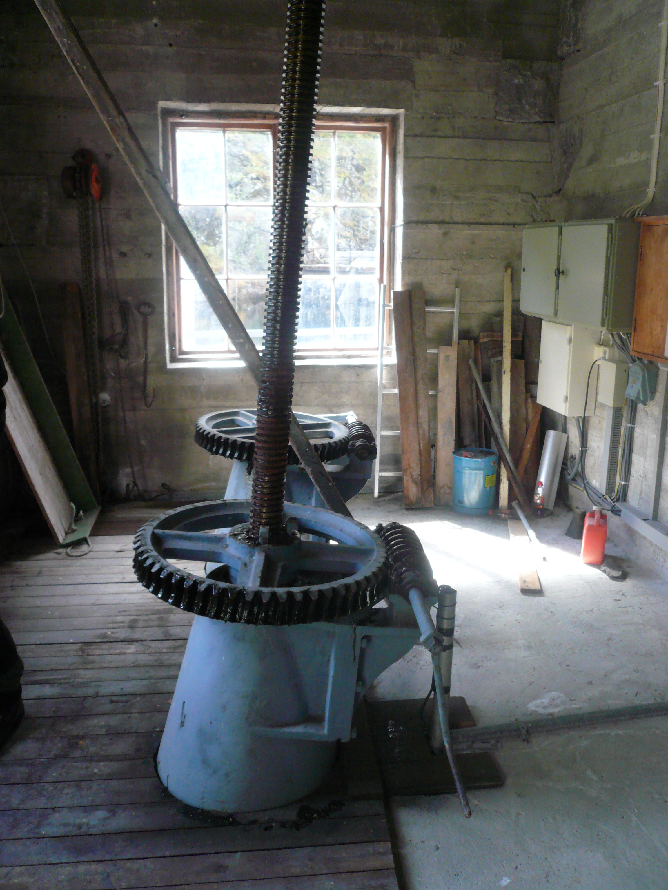 Vetlevann, Skjeggedal, Hordaland, Norway